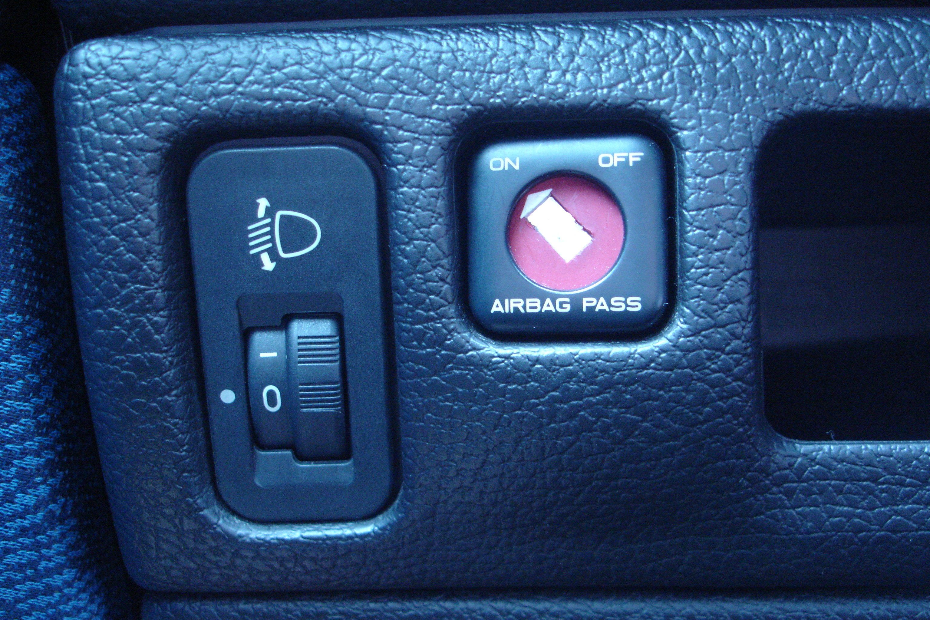 A 1999 3 door Peugeot 206 with a 1.1 L TU1JP petrol engine Kurdî: Peugeot 206 3 dirga sali 1999 ba 1.1 L TU1JP petrol mator